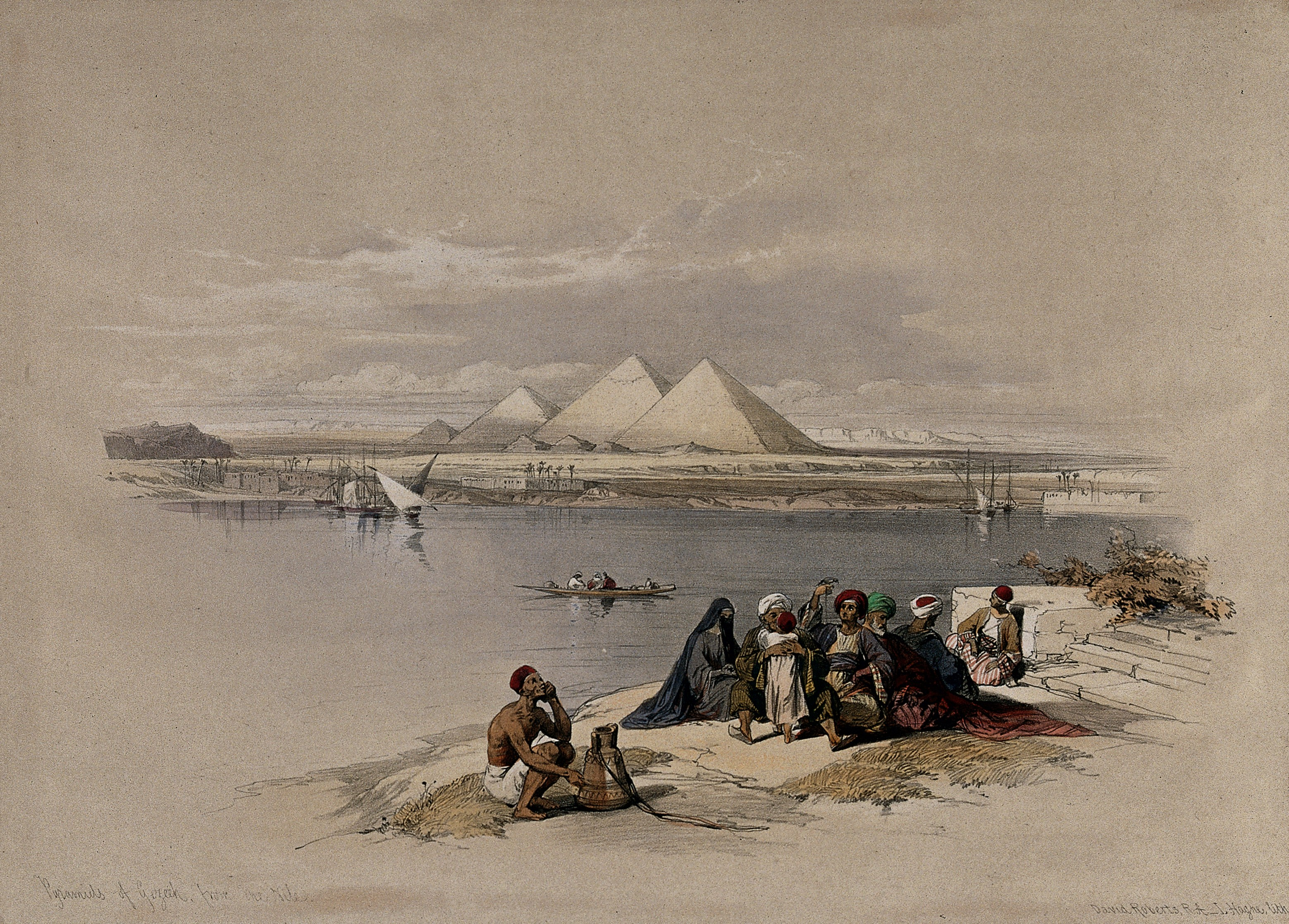 Boat on the river Nile looking towards the pyramids at Saqqâra and Dahshûr, Egypt. Coloured lithograph by Louis Haghe after David Roberts, 1846. Iconographic Collections Keywords: David Roberts; Louis Haghe